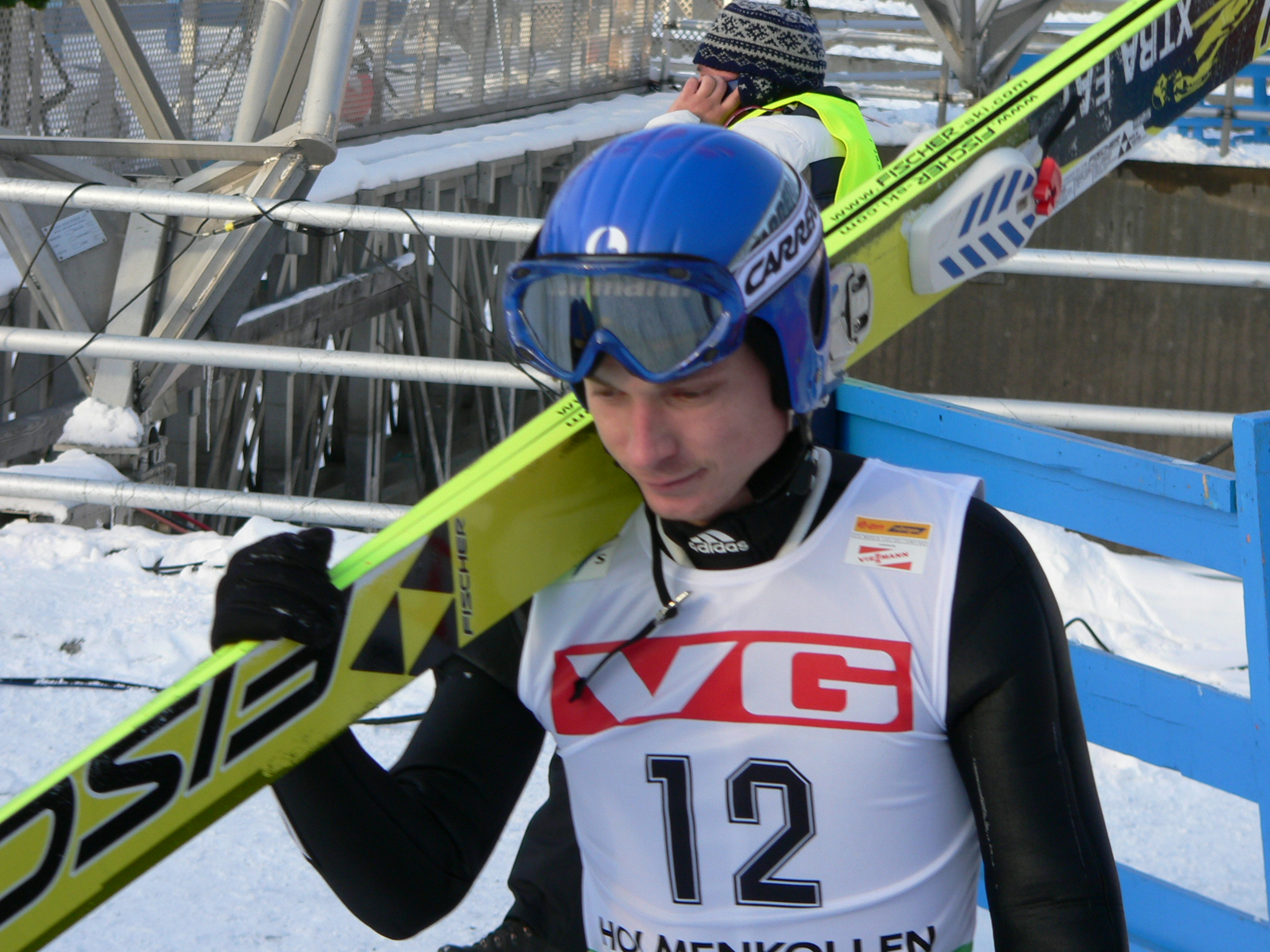 Ivan Karaulov at World Cup in Holmenkollen, Norway